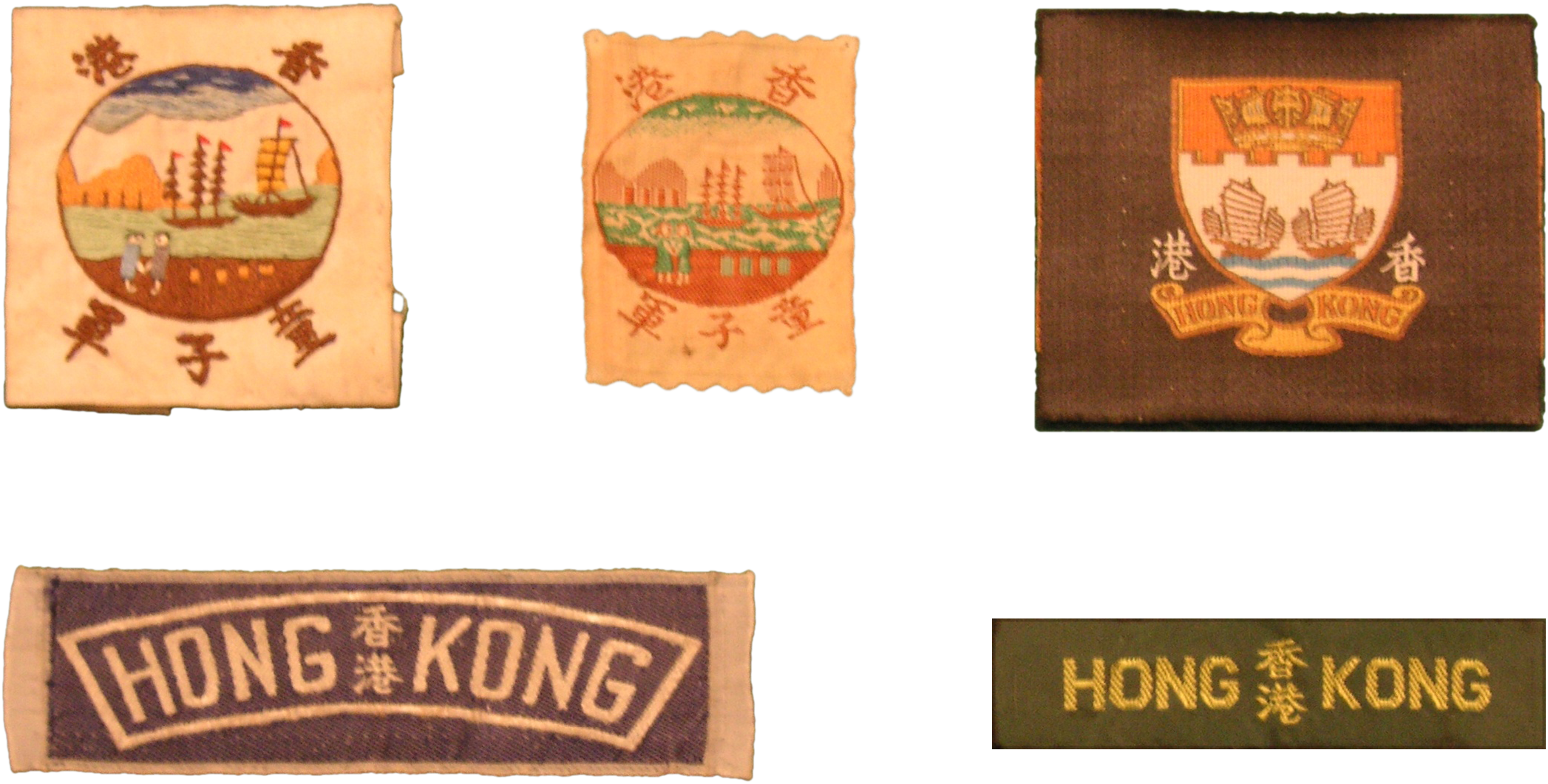 Various old Hong Kong Badges of the Scout Association of Hong Kong Now exhibited in Hong Kong Scout Centre